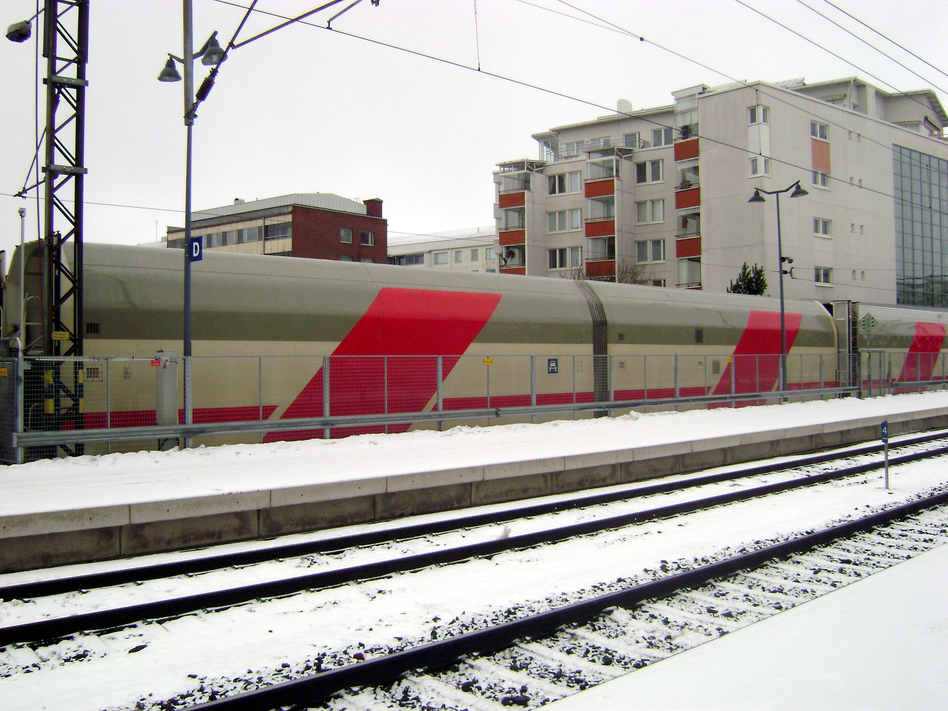 Two Finnish doubledecker car coaches in Tampere.